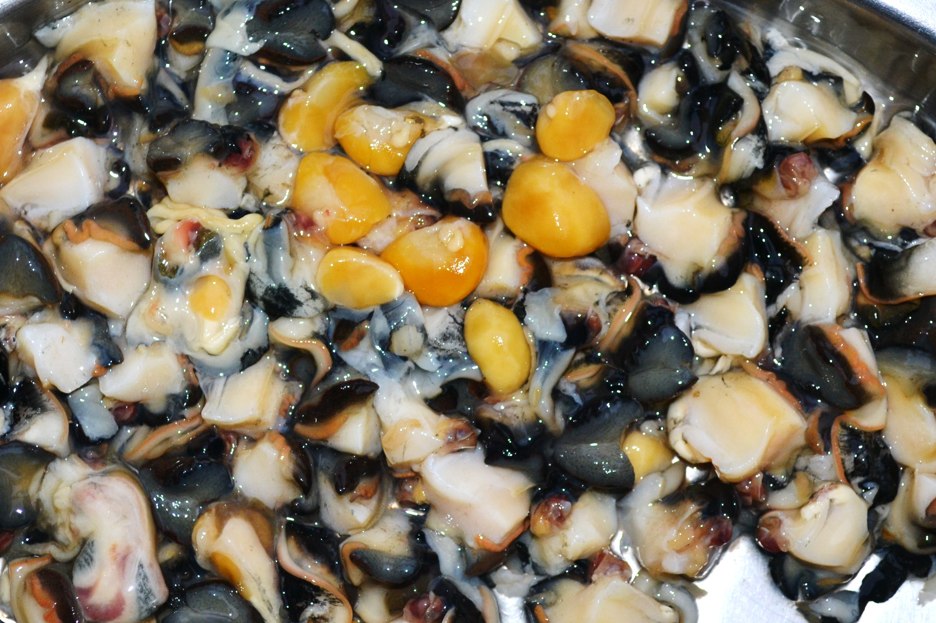 Meat extracted from fresh water periwinkle snail